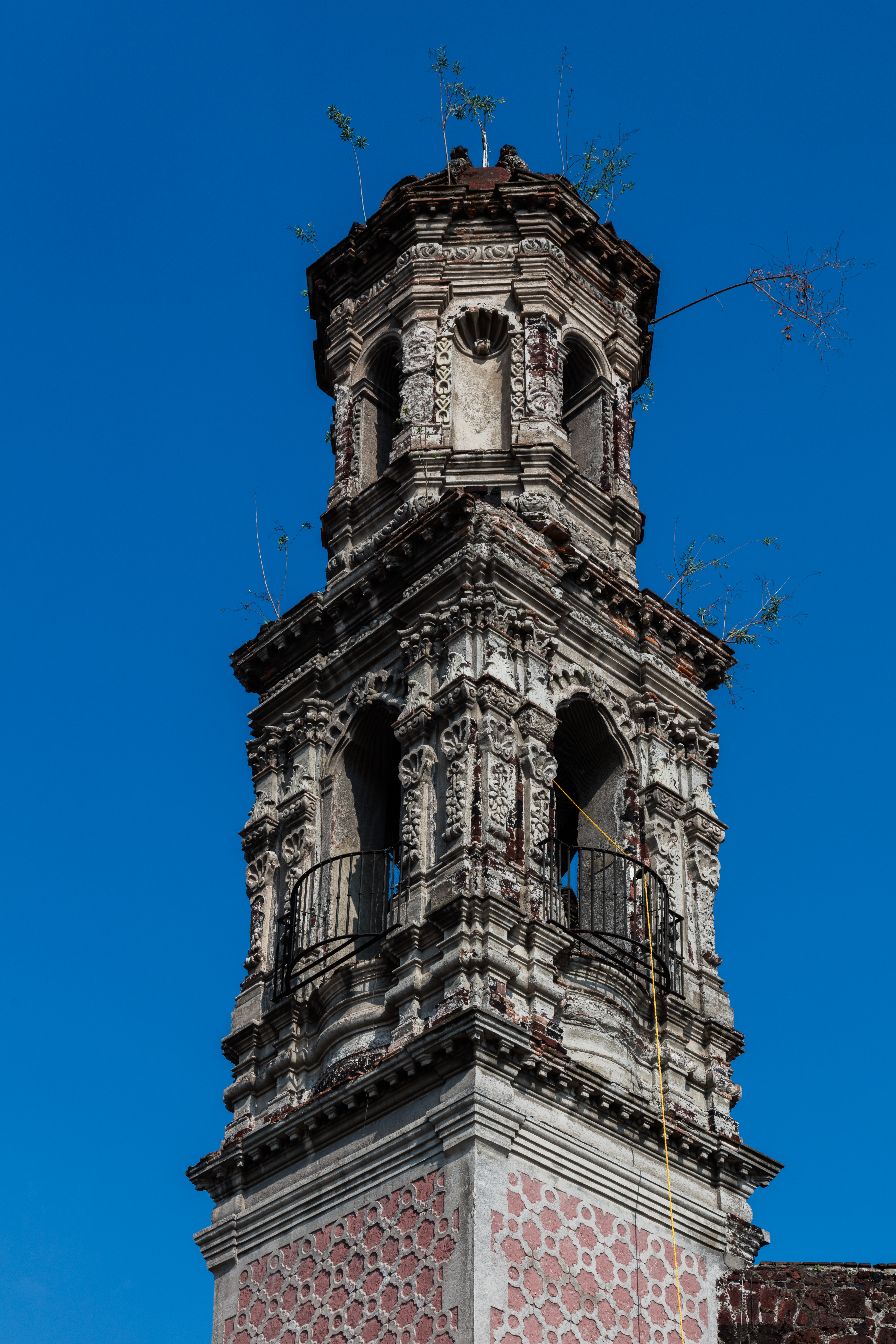 Iglesia de San Hipólito, Ciudad de México, México